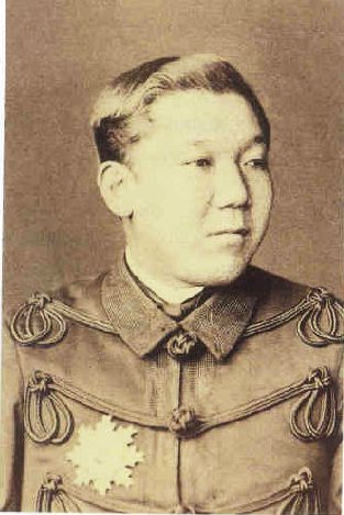 Prince Ōyama Iwao, OM (大山 巌?, 12 November 1842 – 10 December 1916) was a Japanese field marshal, and one of the founders of the Imperial Japanese Army.